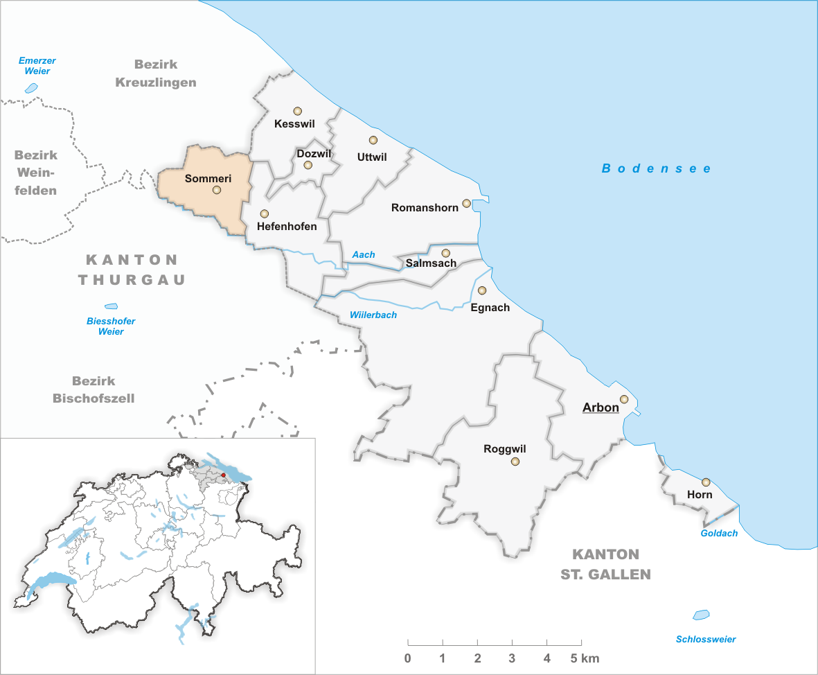 Municipality Sommeri